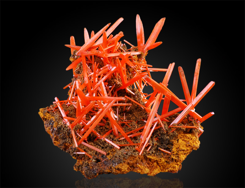 Crocoite (Size: 4.0 x 4.0 x 2.5 cm) Locality: Adelaide Mine (Adelaide Pty Mine; Adelaide Proprietary Mine), Dundas mineral field, Zeehan District, Tasmania, Australia